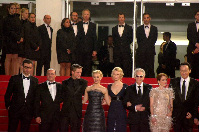 Cast and crew of "Maps to the stars" at the Cannes film festival